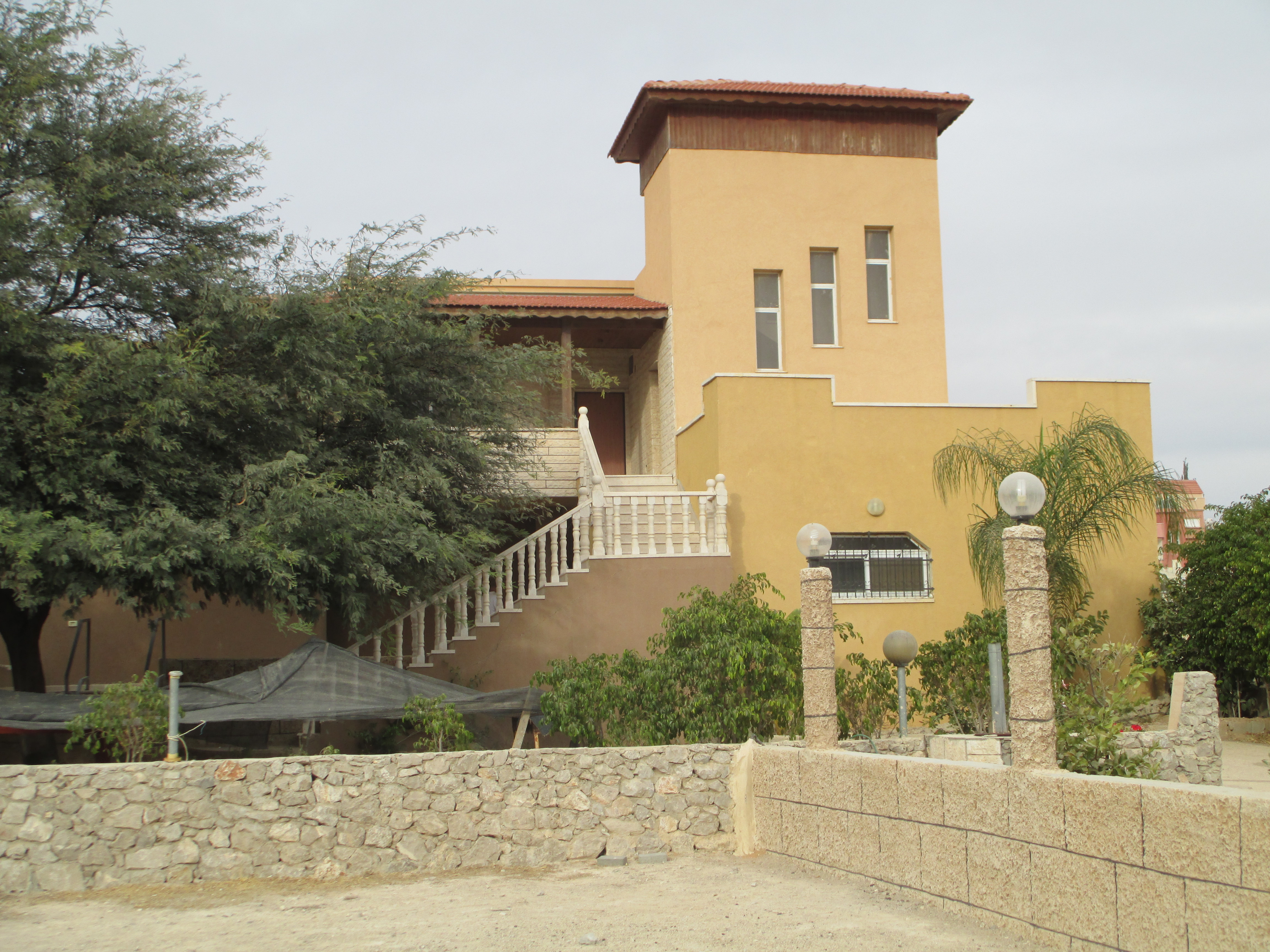 Drijat in northern Negev